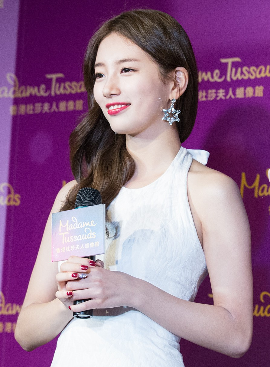 Suzy at Madame Tussauds Hong Kong, 13 September 2016